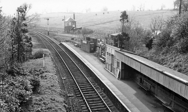 Broomielaw Station (remains). View westward, towards Barnard Castle; ex-North Eastern Darlington - Barnard Castle etc. line. This station, which was Private (to Bowes-Lyon of Streatham Castle) until 9/6/42, closed to passengers on 30/11/64 and to goods when the line closed completely on 5/4/65 - just before this photograph was taken.